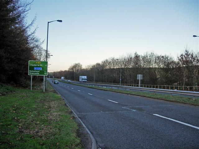 A167 at Pity Me The A167 used to be the A1 until the late 1960s when the A1(M) motorway was built 5 miles to the west.